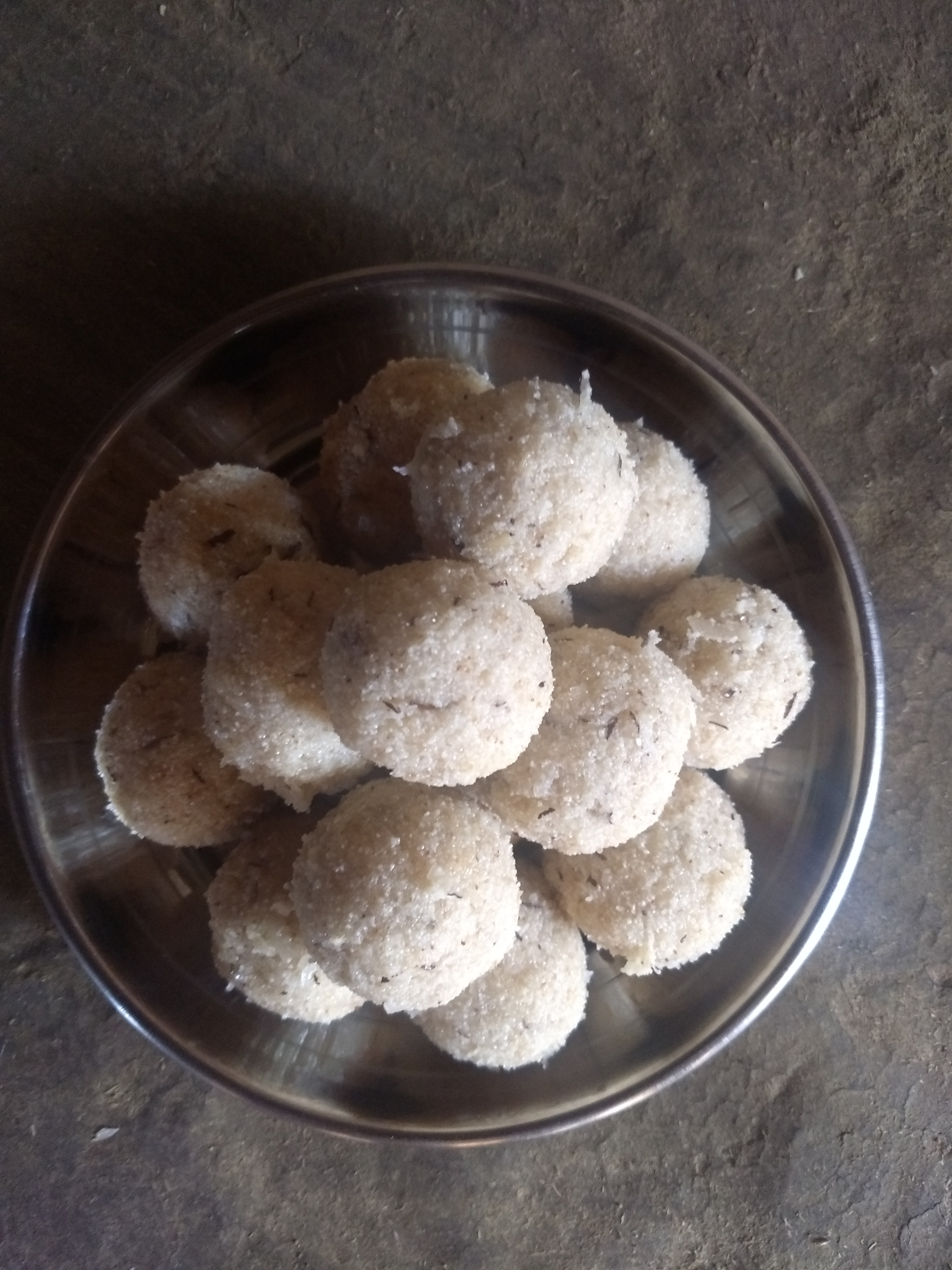 Prepared raveladdu on display